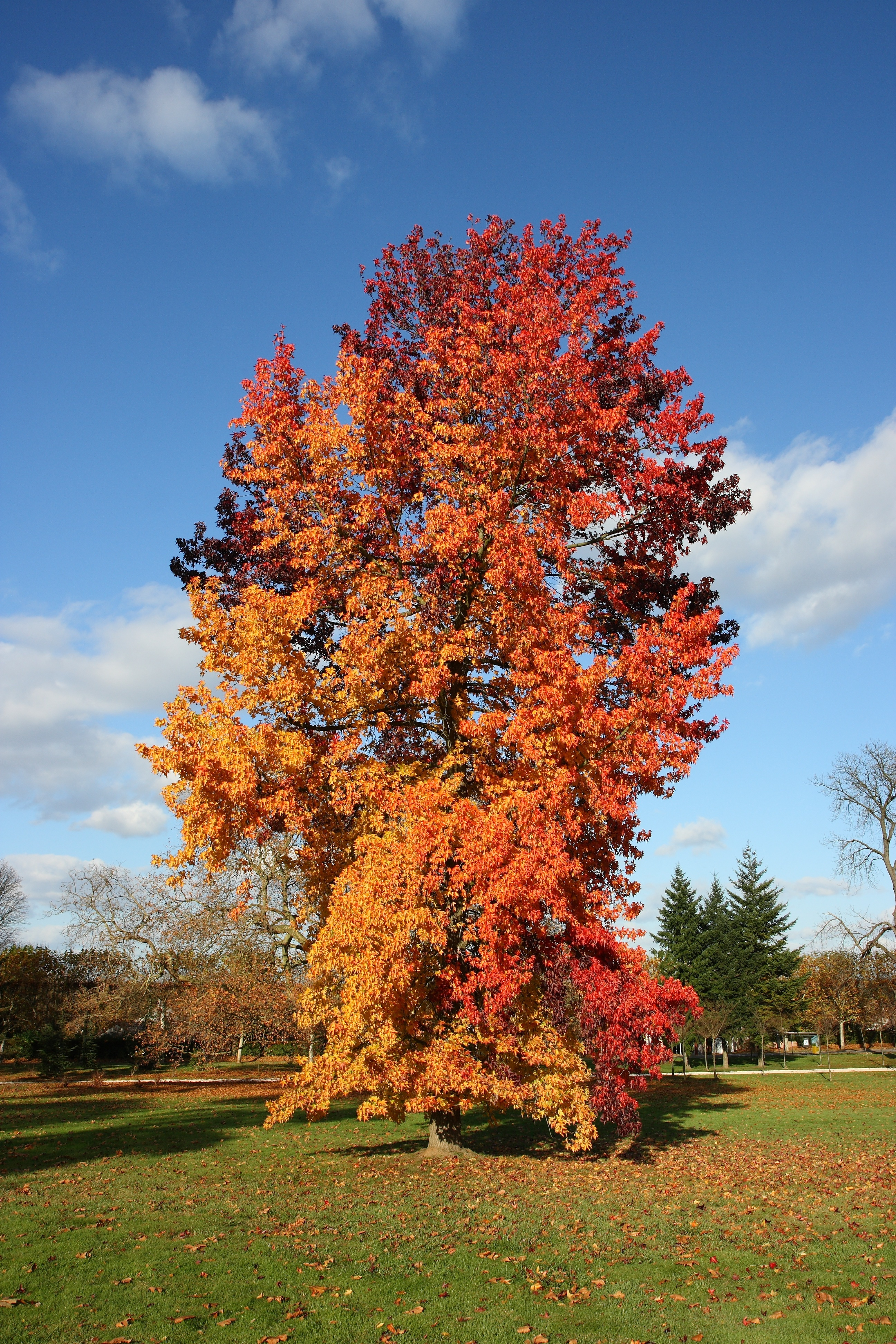 An American Sweetgum (Liquidambar styraciflua), photo taken in autumn.